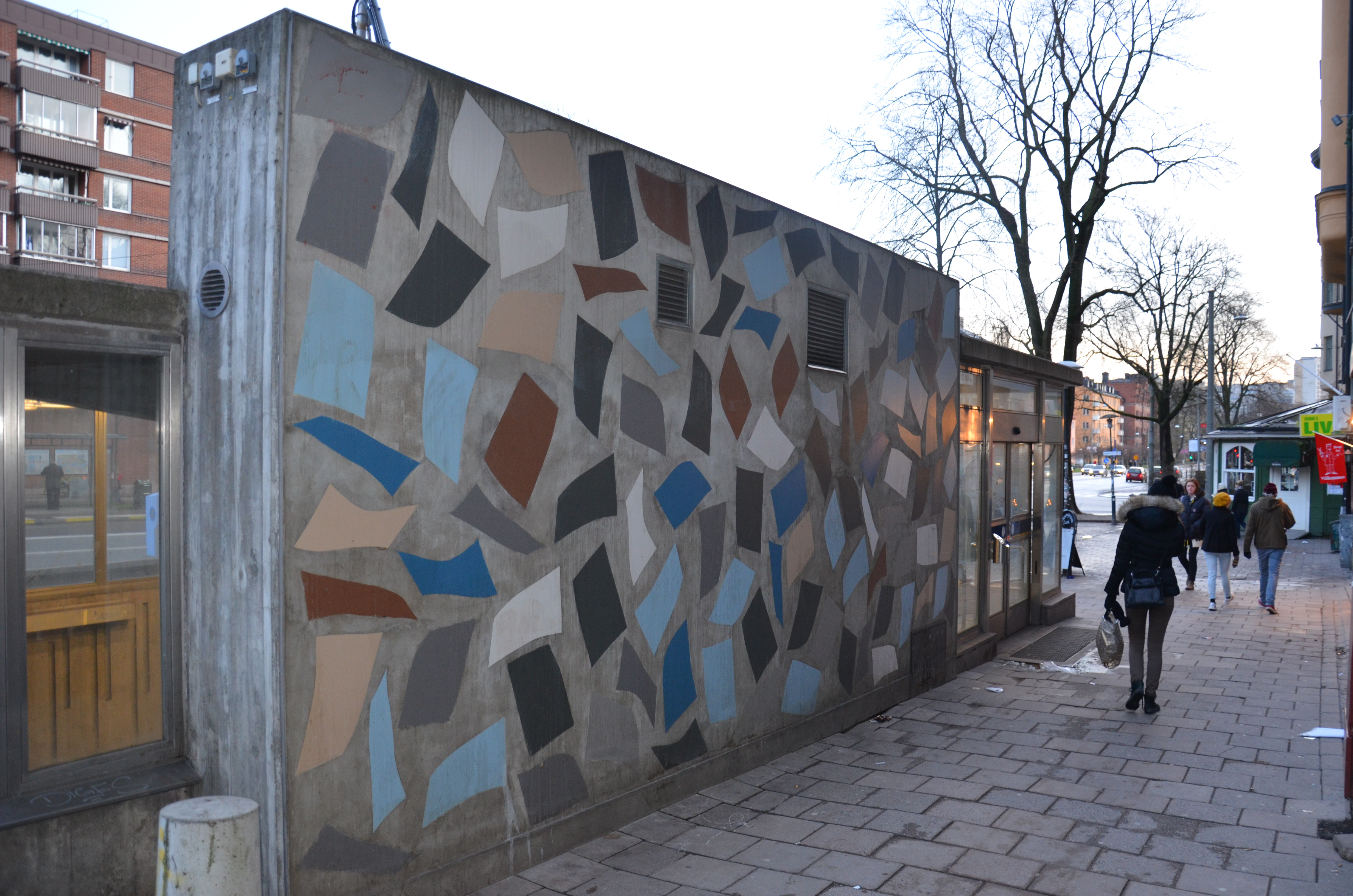 Entrance to Metro station Zinkensdamm, Stockholm, on Ringvägen. Art work by John Stenborg.